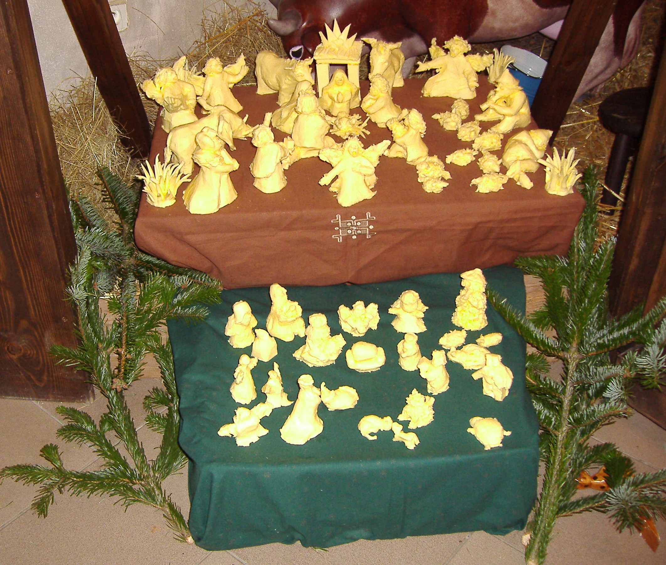 Butter nativity scene in butter museum in Máslovice.